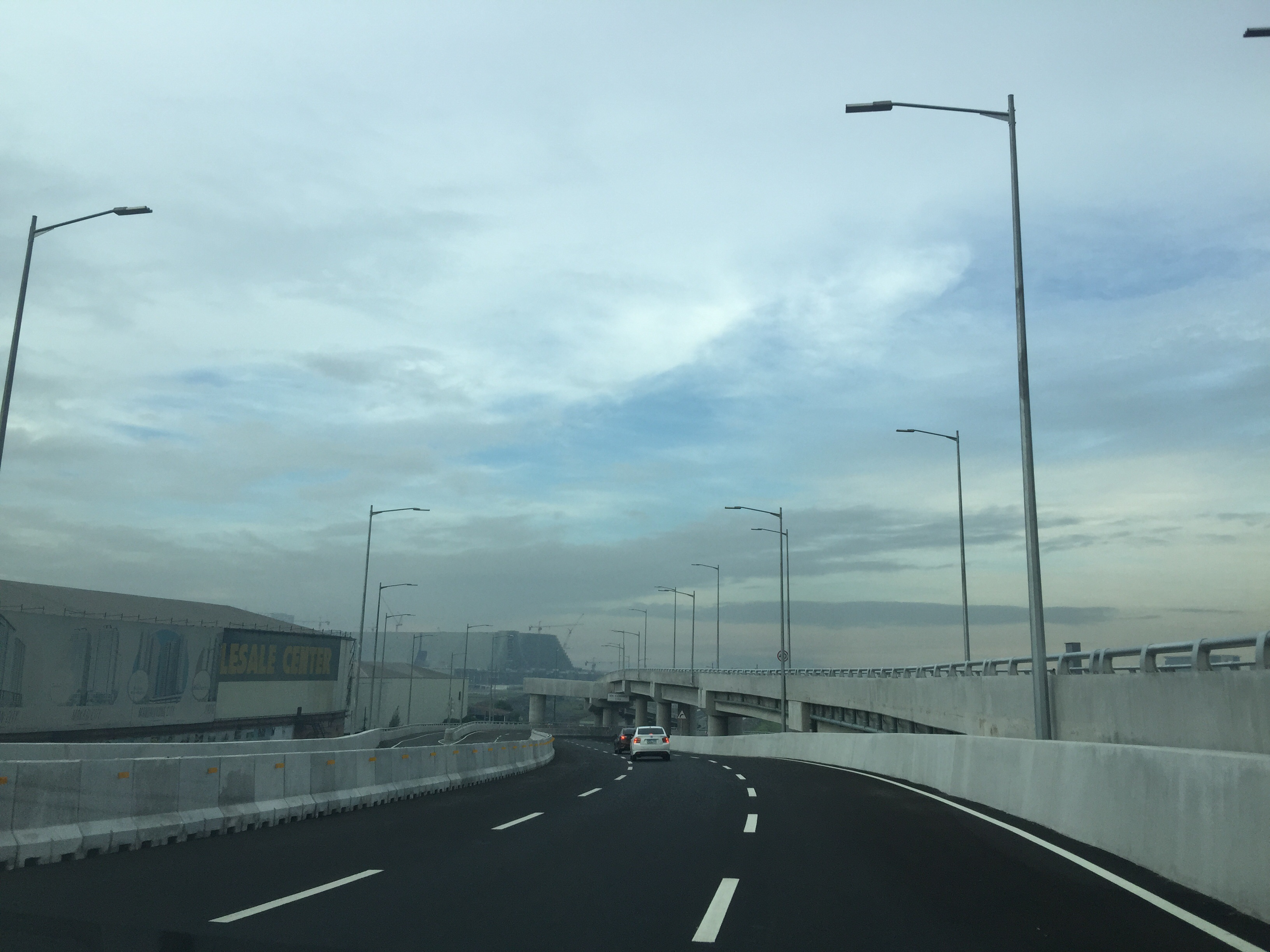 On the NAIA Expressway Macapagal Boulevard off-ramp looking towards Okada Manila in Entertainment City, Parañaque, Metro Manila